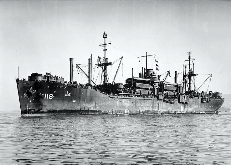 USS Hendry (APA-118) in San Francisco Bay, CA., probably in late 1945 returning troops from the Western Pacific to the United States as part of Operation "Magic Carpet." US Navy photo # NH 98728 donated to the US Naval Historical Center by Boatswain's Mate First Class Robert G. Tippins, USN (Retired), 2003.